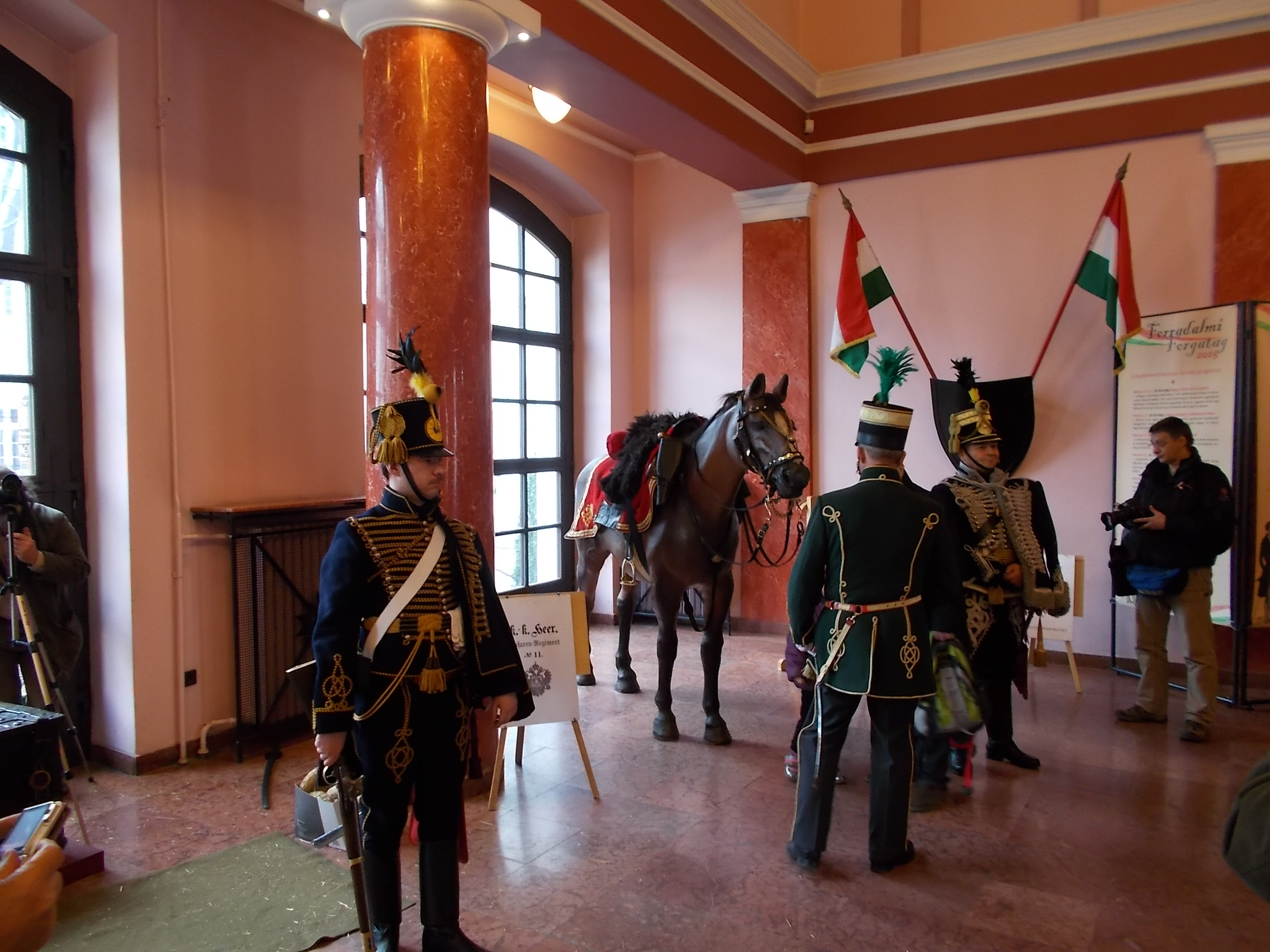 Hussars. Marble hall. Battle Painting. Museum of Military History. - Arpad Toth Promenade 40, Buda Castle Quarter, Budapest